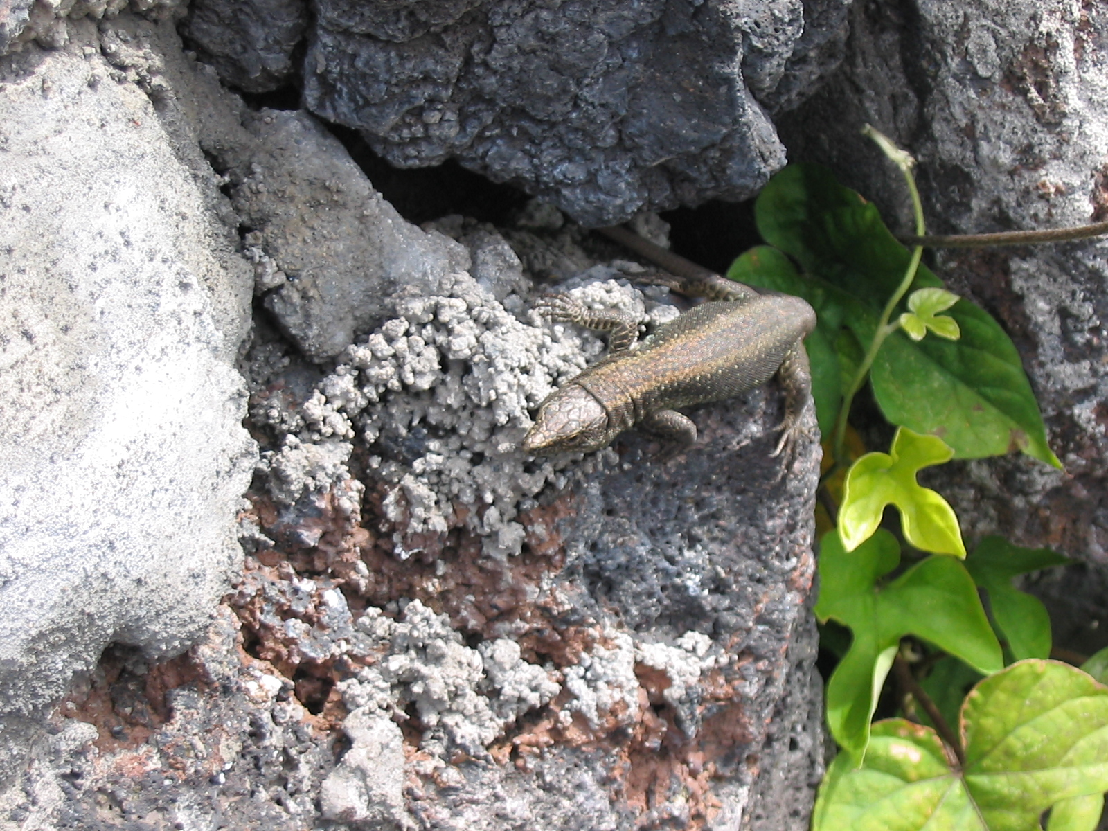 Teira dugesii at a dry stone wall near Urzeline, Sao Jorge, Azores